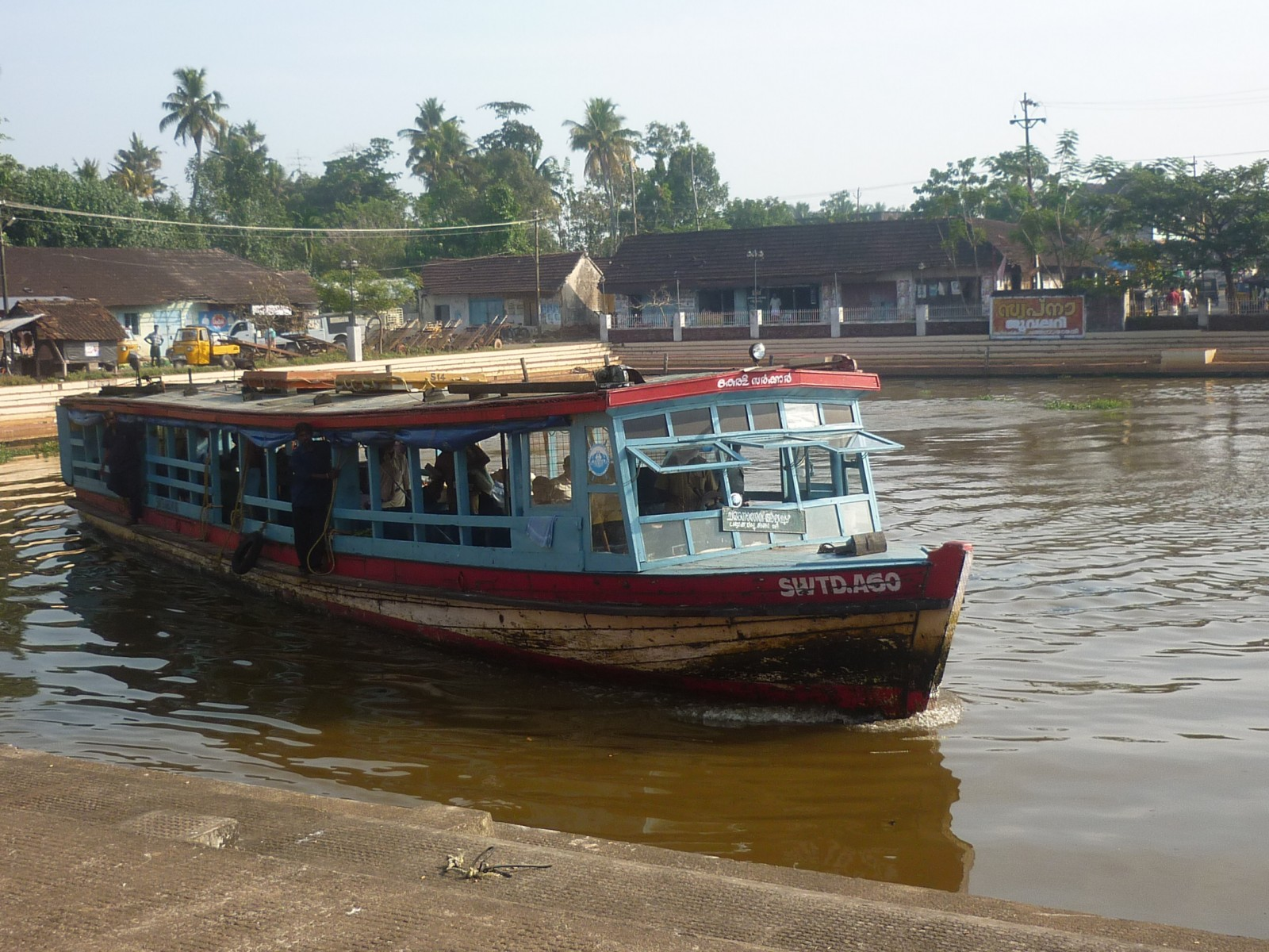 {Water transport At Changanassery }